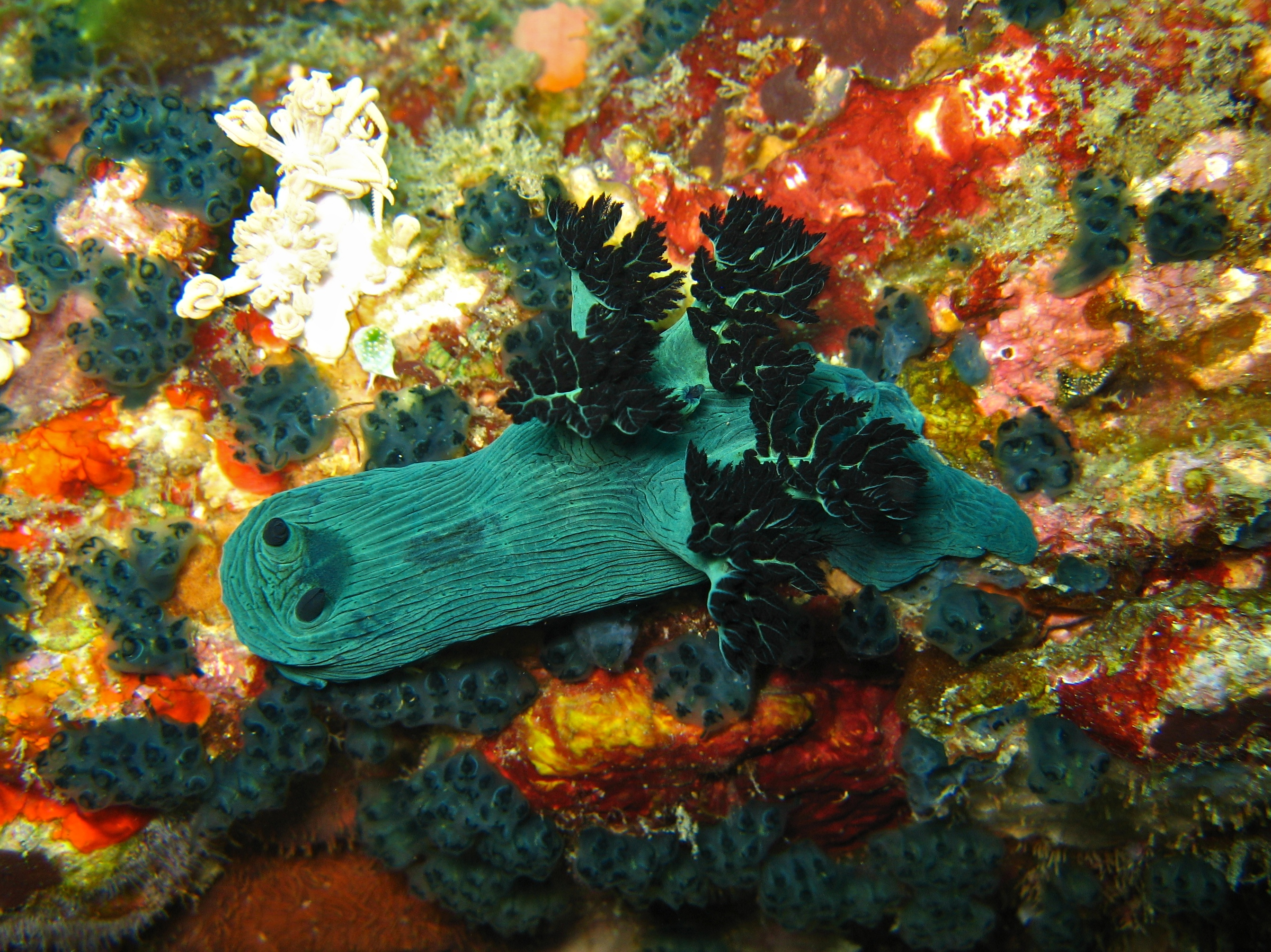 Nudibranch Nembrotha milleri taken at "The Drop Off" divesite, Verde Island, the Philippines